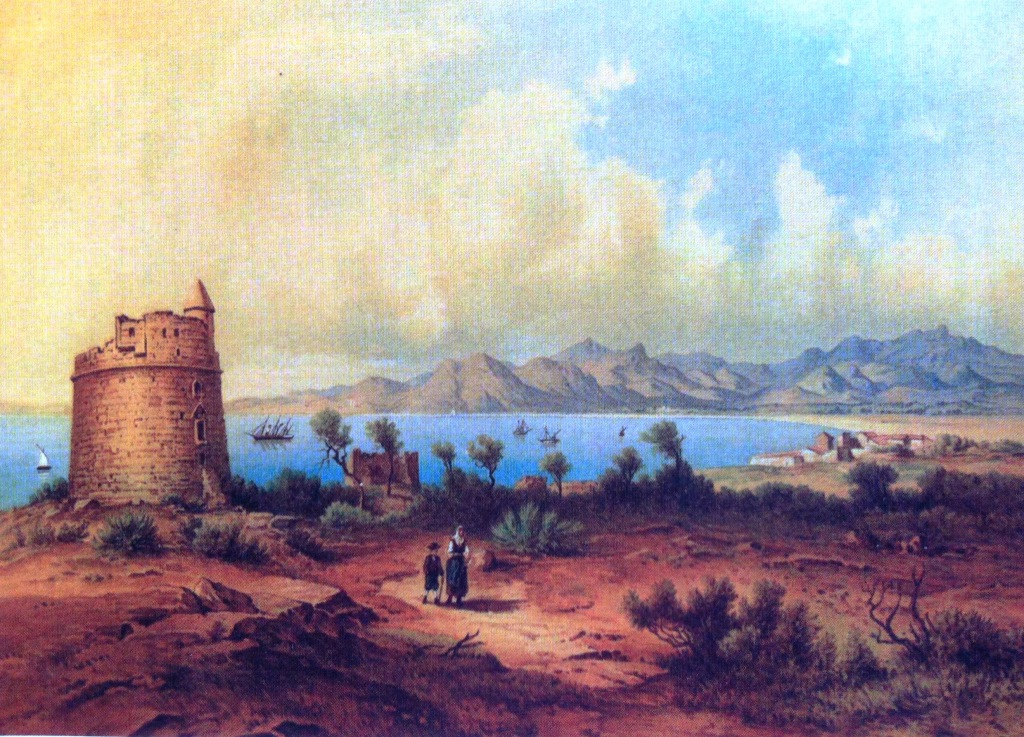 Alcudia's Bay view (XIX century)